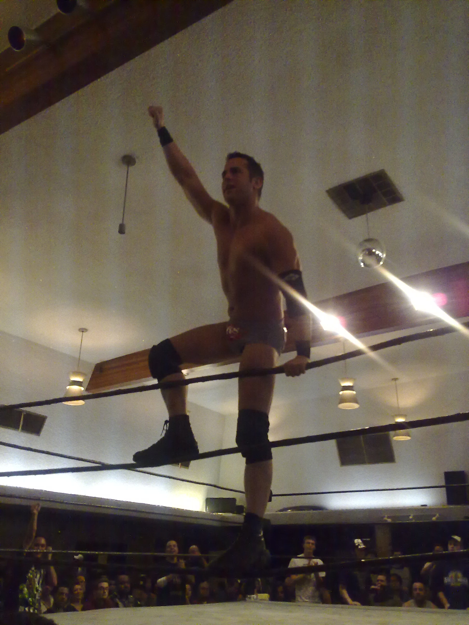 Professional wrestler Roderick Strong at Pro Wrestling Guerrilla's Battle of Los Angeles 2009 show on November 21, 2009.